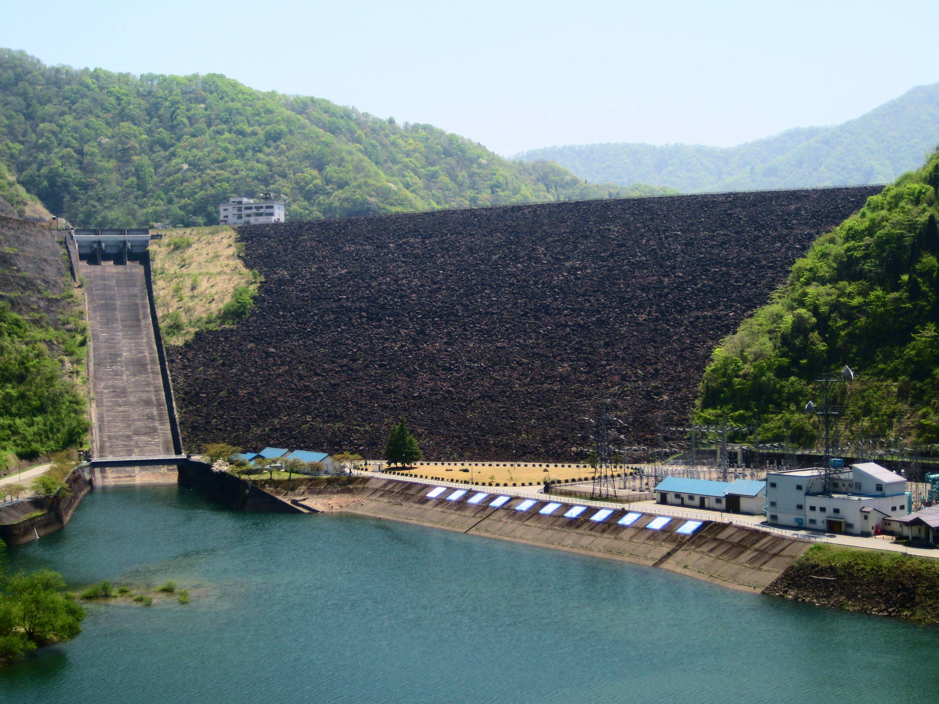 Kuzuryū Dam.